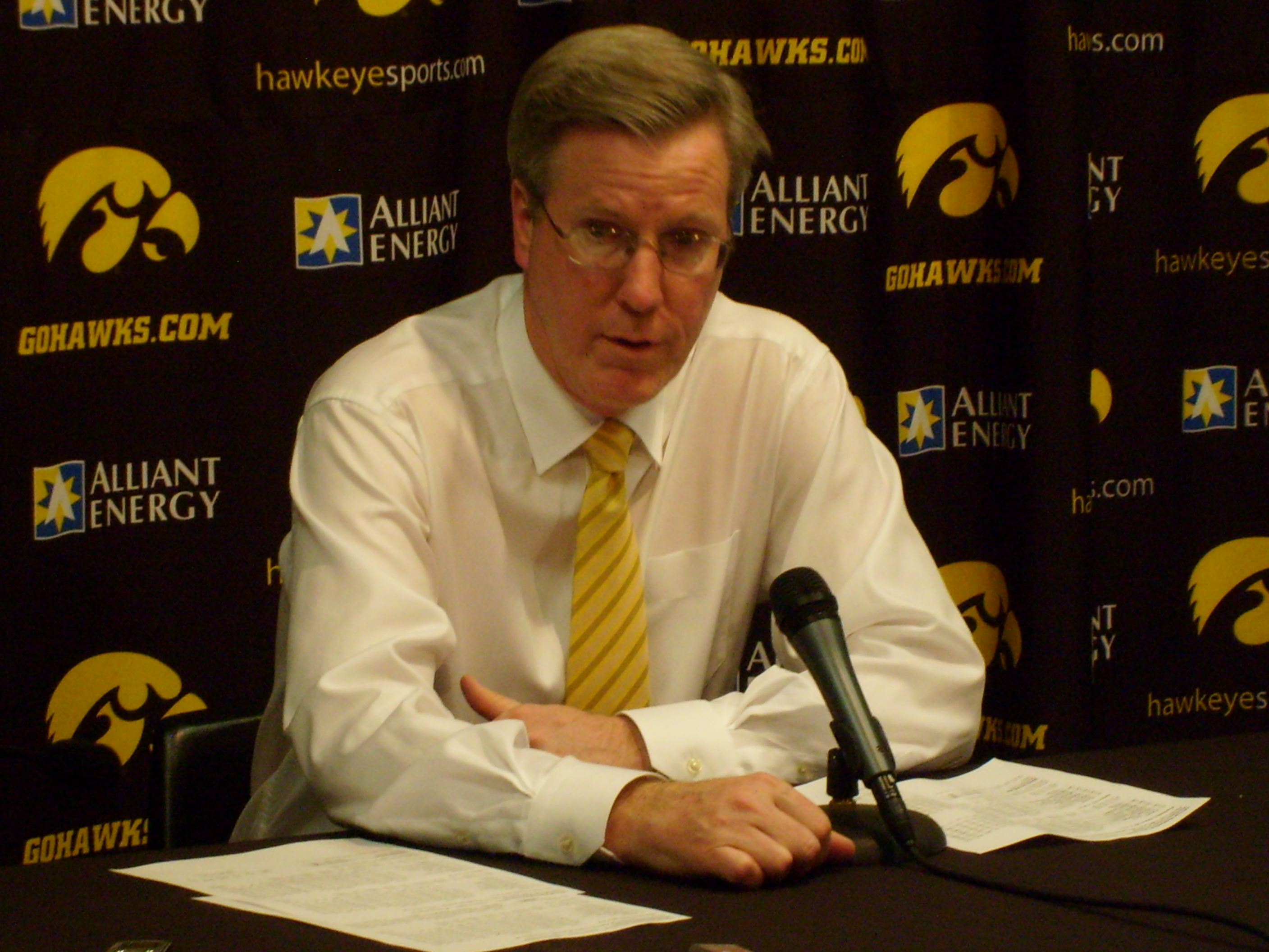 Iowa head coach Fran McCaffery talks with members of the media following a win versus Northern Iowa in 2010.